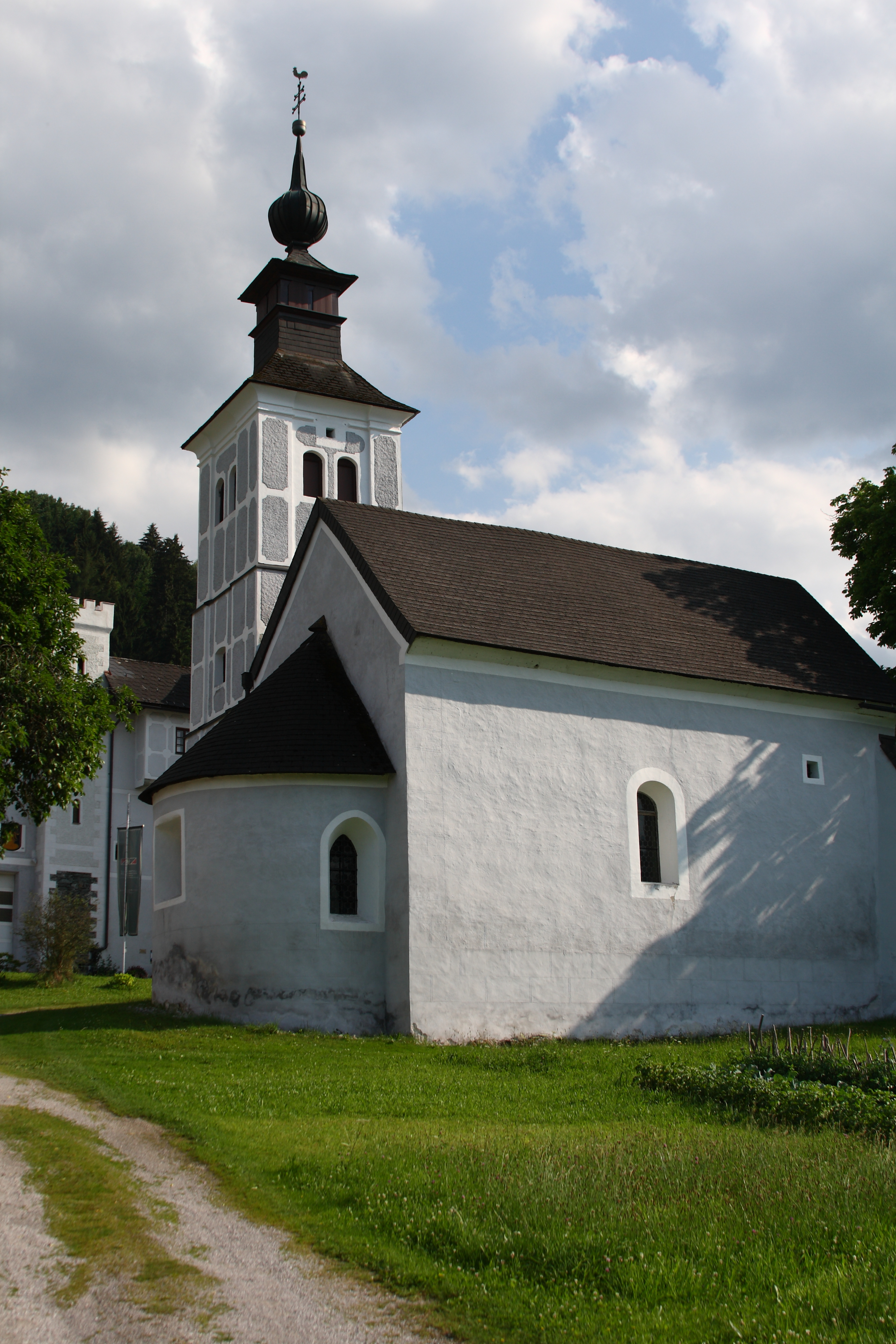 Church saint Michael, Michaelerberg, Styria, Austria